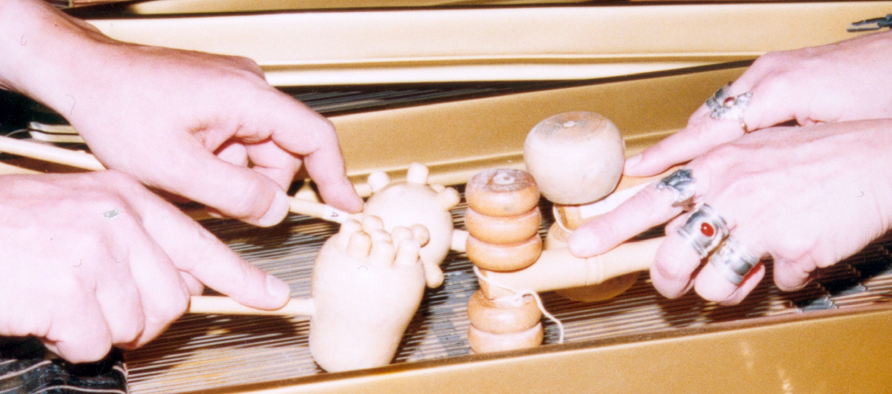 Playing cordepiano